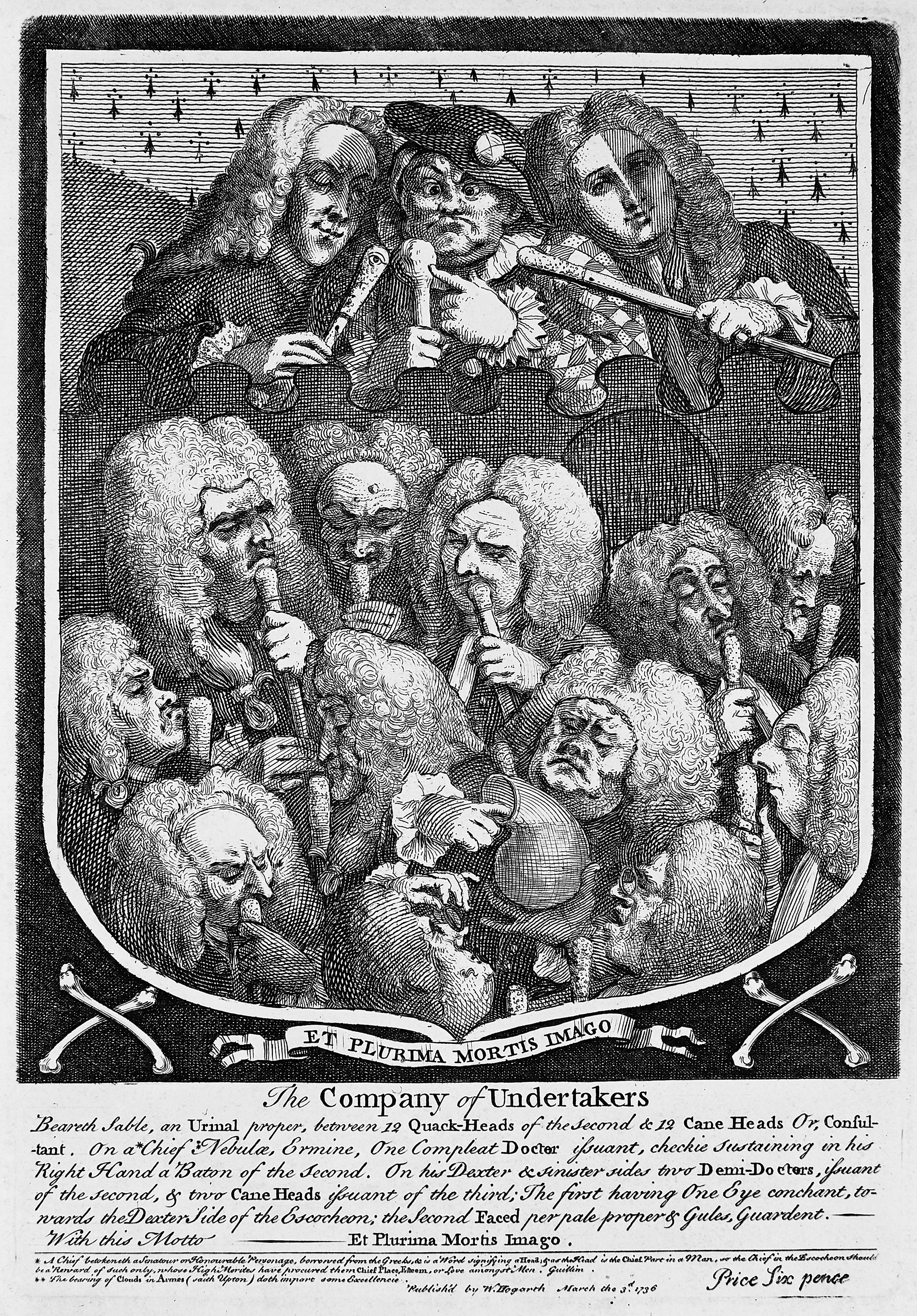 The Company of Undertakers or a Consultation of Physicians. The three figures at the top are Chevalier Taylor, 'Crazy Sally' Map and Spotward. Iconographic Collections Keywords: William Hogarth